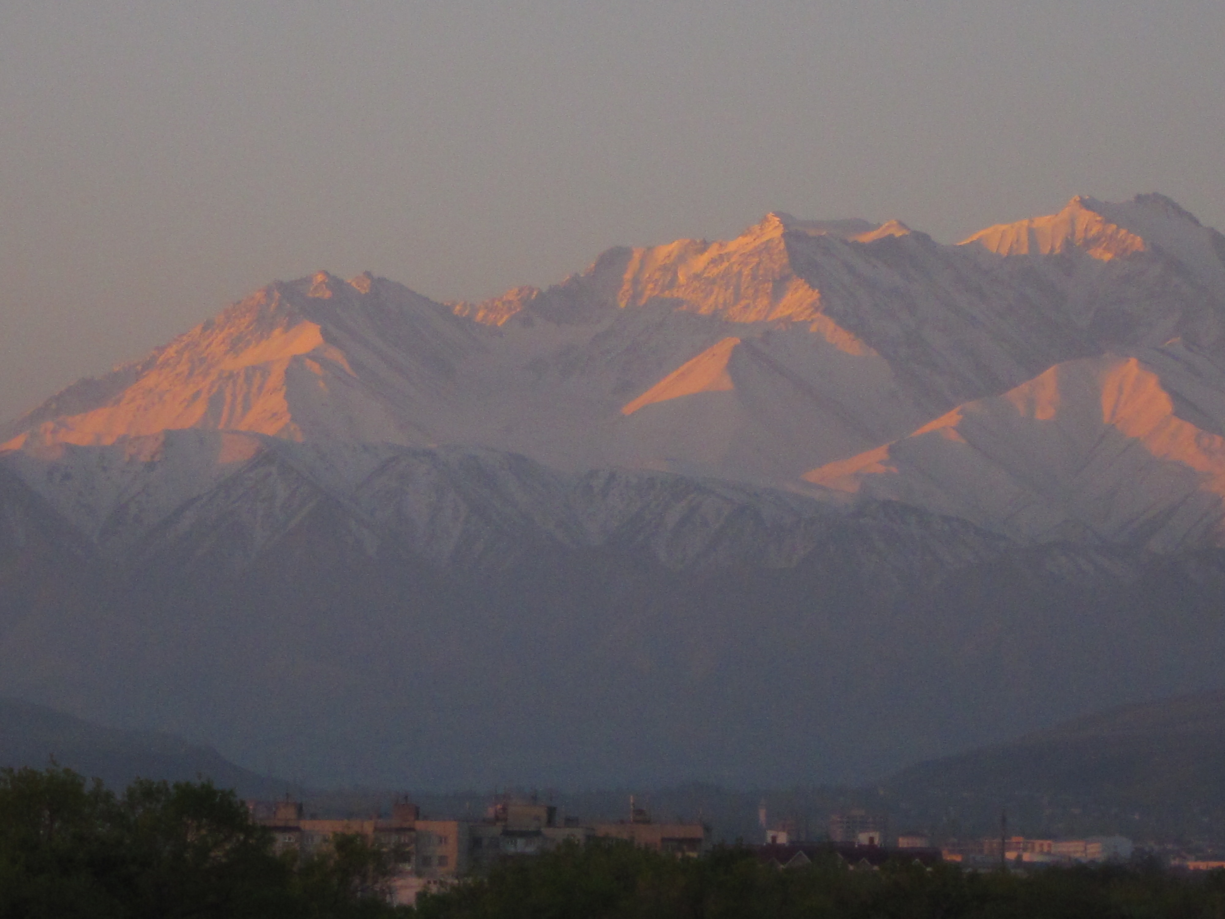 Kyrgyz Alatau from Bishkek